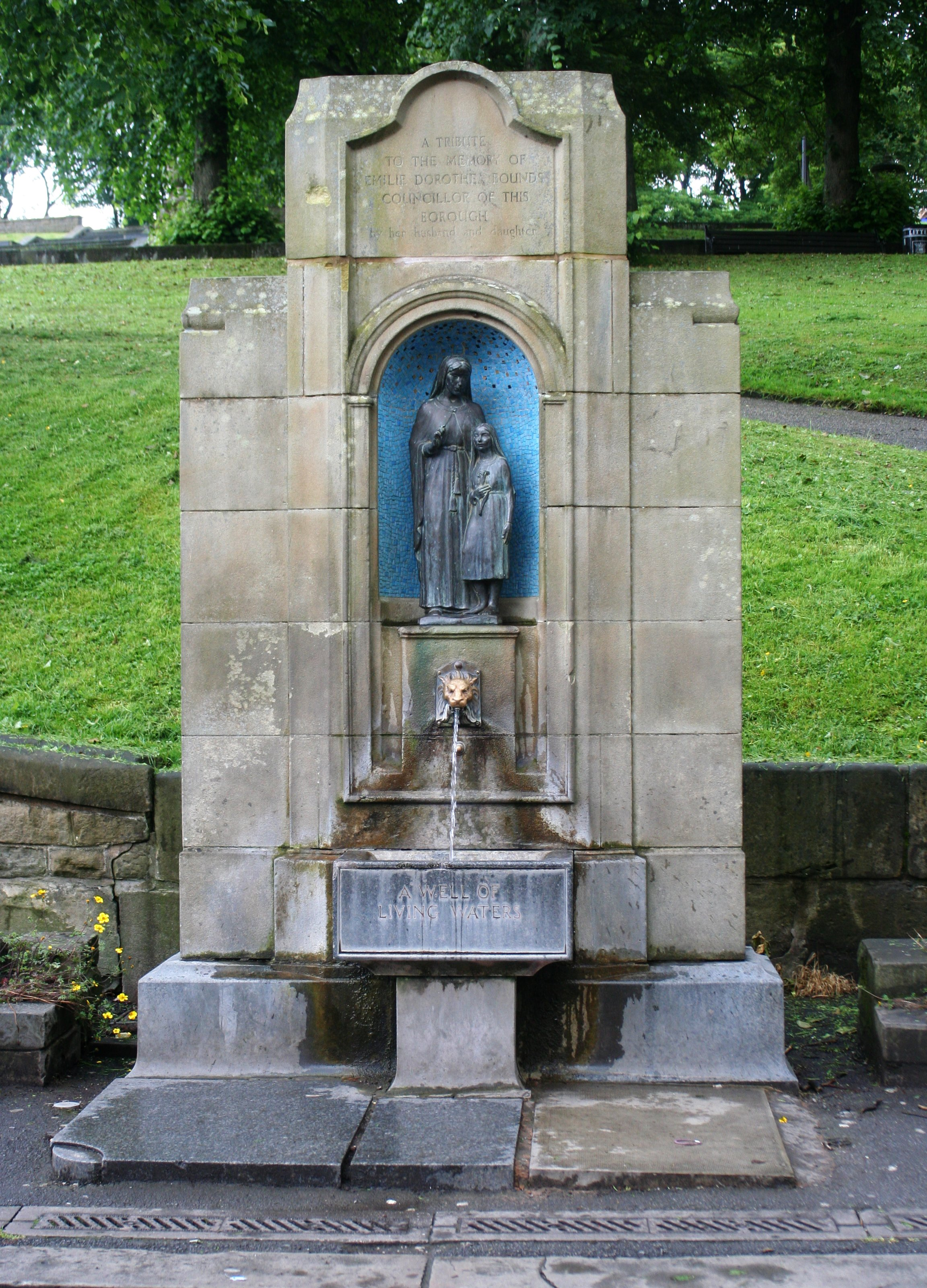 St. Ann's Well, Buxton, Derbyshire, England.